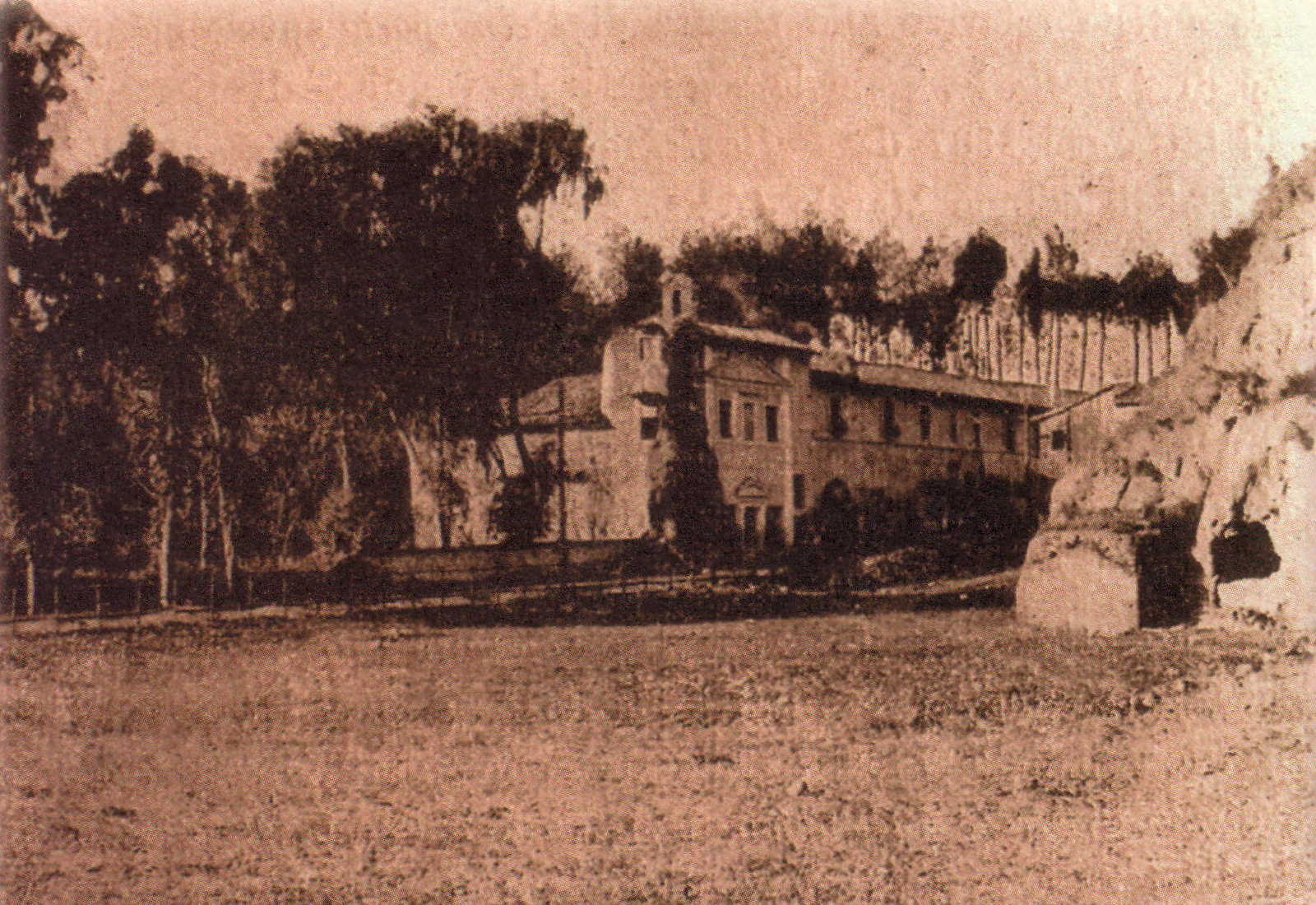 Prima Porta: old church of Saints Urbano and Lorenzo